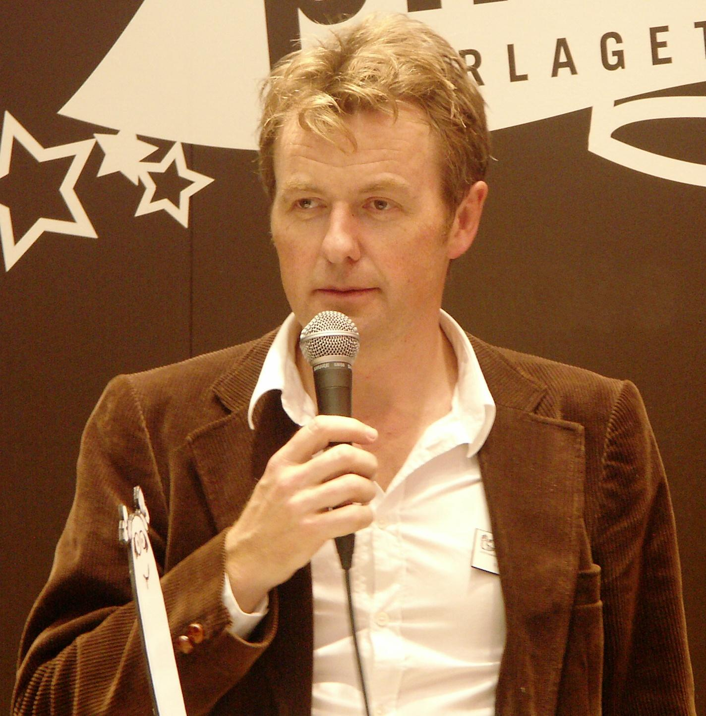 Norwegian talk show host Fredrik Skavlan.